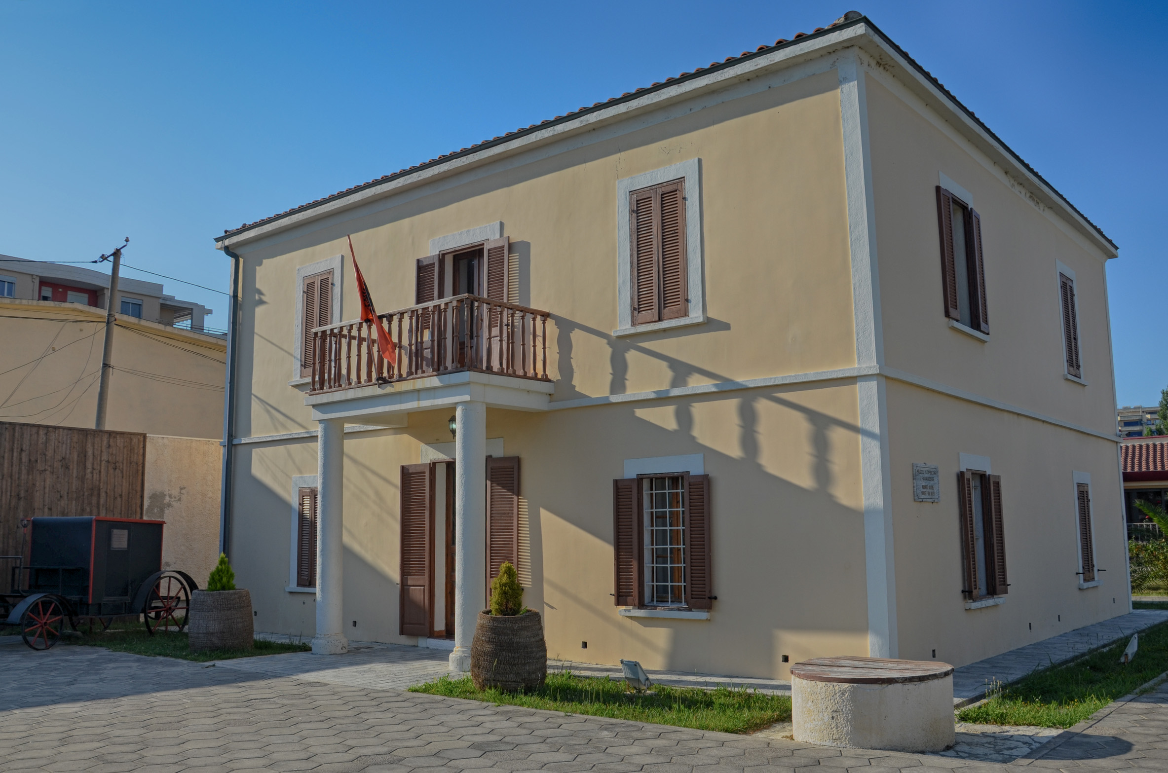 The Independence Museum in Vlorë, Albania, the seat of the Vlorë National Assembly (1912) and the seat of the provisory national government hedad by Ismail Qemali (1912–1914)